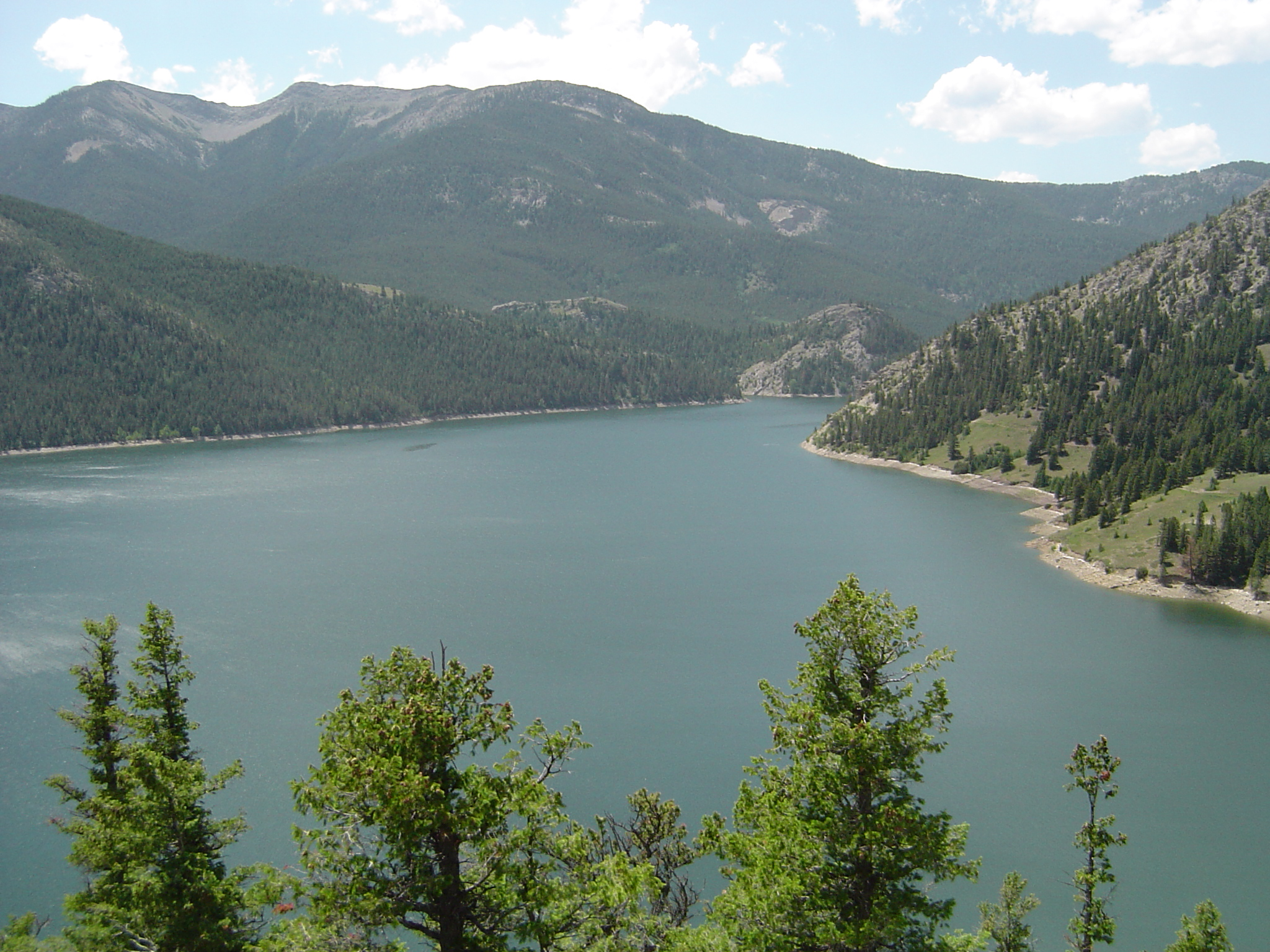 Photo of Gibson Reservoir, Montana, USA.